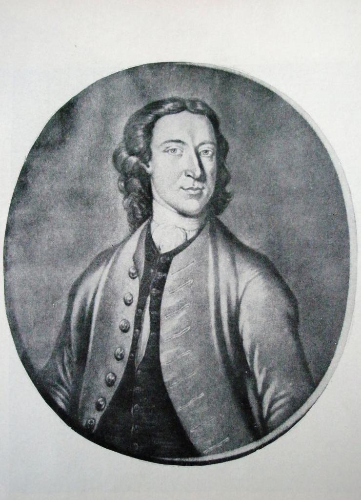 John Cennick, missionary of Moravian Church